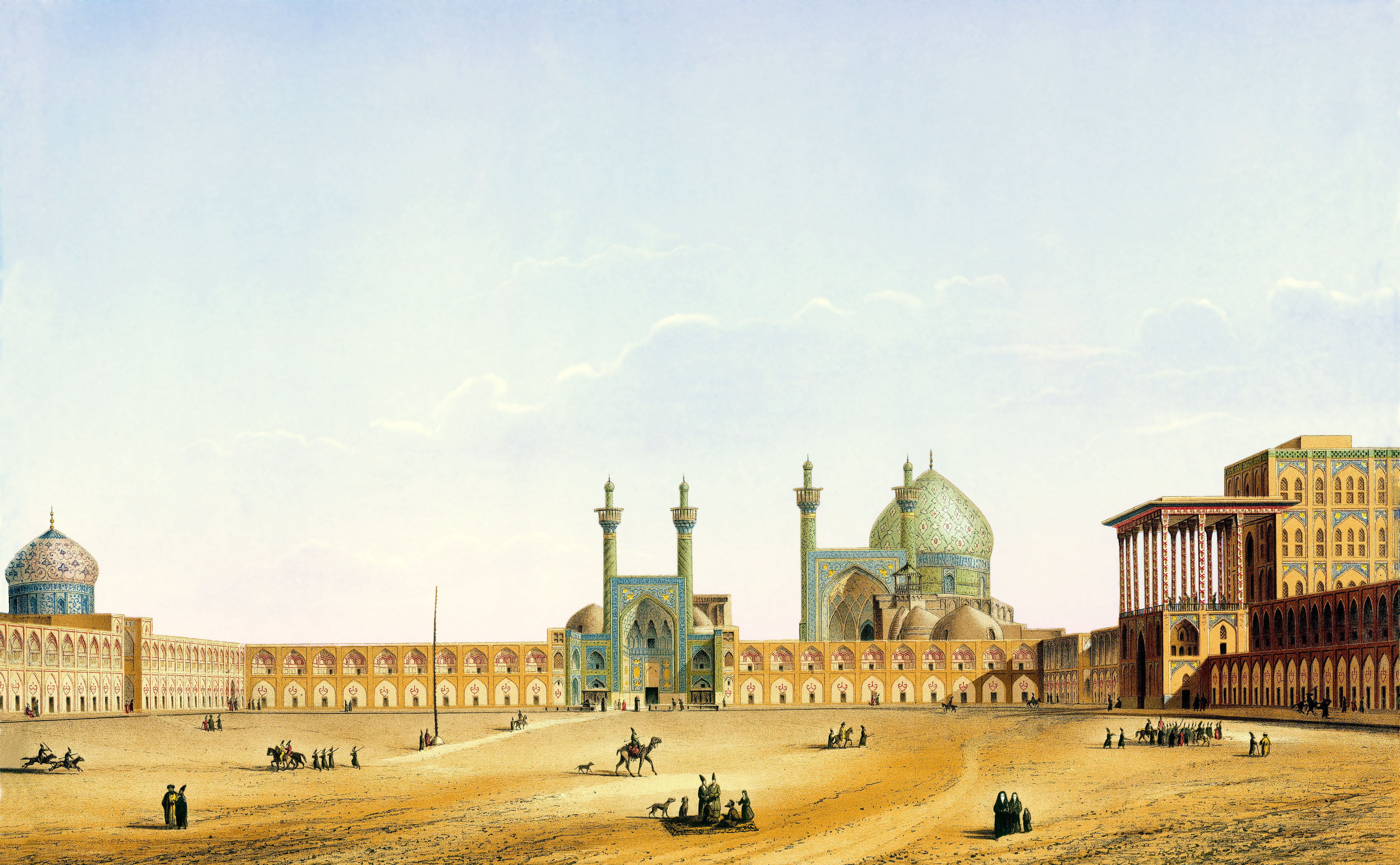 19th century drawing of Naqsh-e Jahan Square, Isfahan; this drawing is the work of French architect, Xavier Pascal Coste, who traveled to Iran along with the French king's embassy to Persia in 1839.